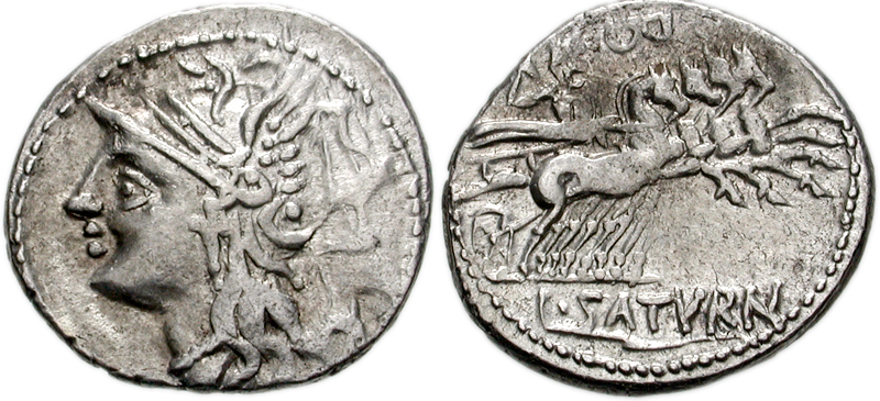 Lucius Appuleius Saturninus. 104 BC. AR Denarius (19mm, 3.86 g, 8h). Rome mint. Helmeted head of Roma left / Saturn driving galloping quadriga right; B above. Crawford 317/3a; Sydenham 578; Appuleia 1 var. (letter above horses). VF, toned.